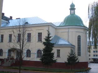 academy chapel